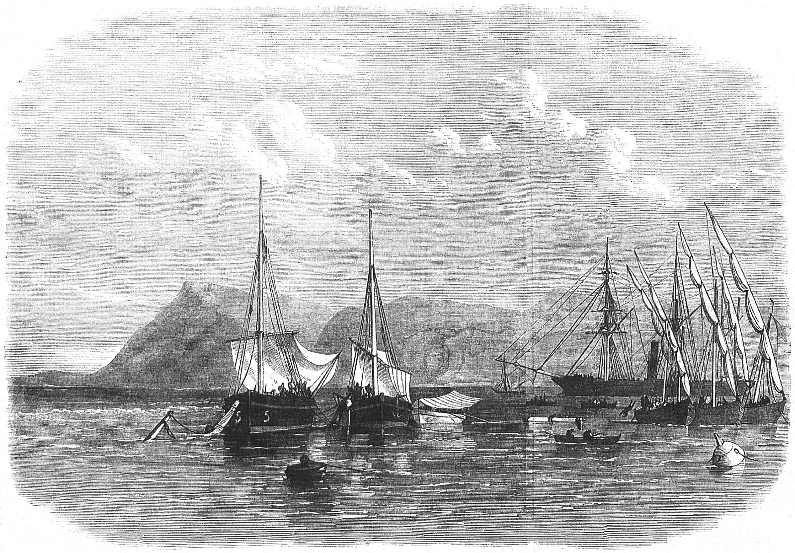 Recovering the Cargo of the Carnatic off Shadwan, Sha'b Abu el-Nuhas, Gulf of Suez, Egypt